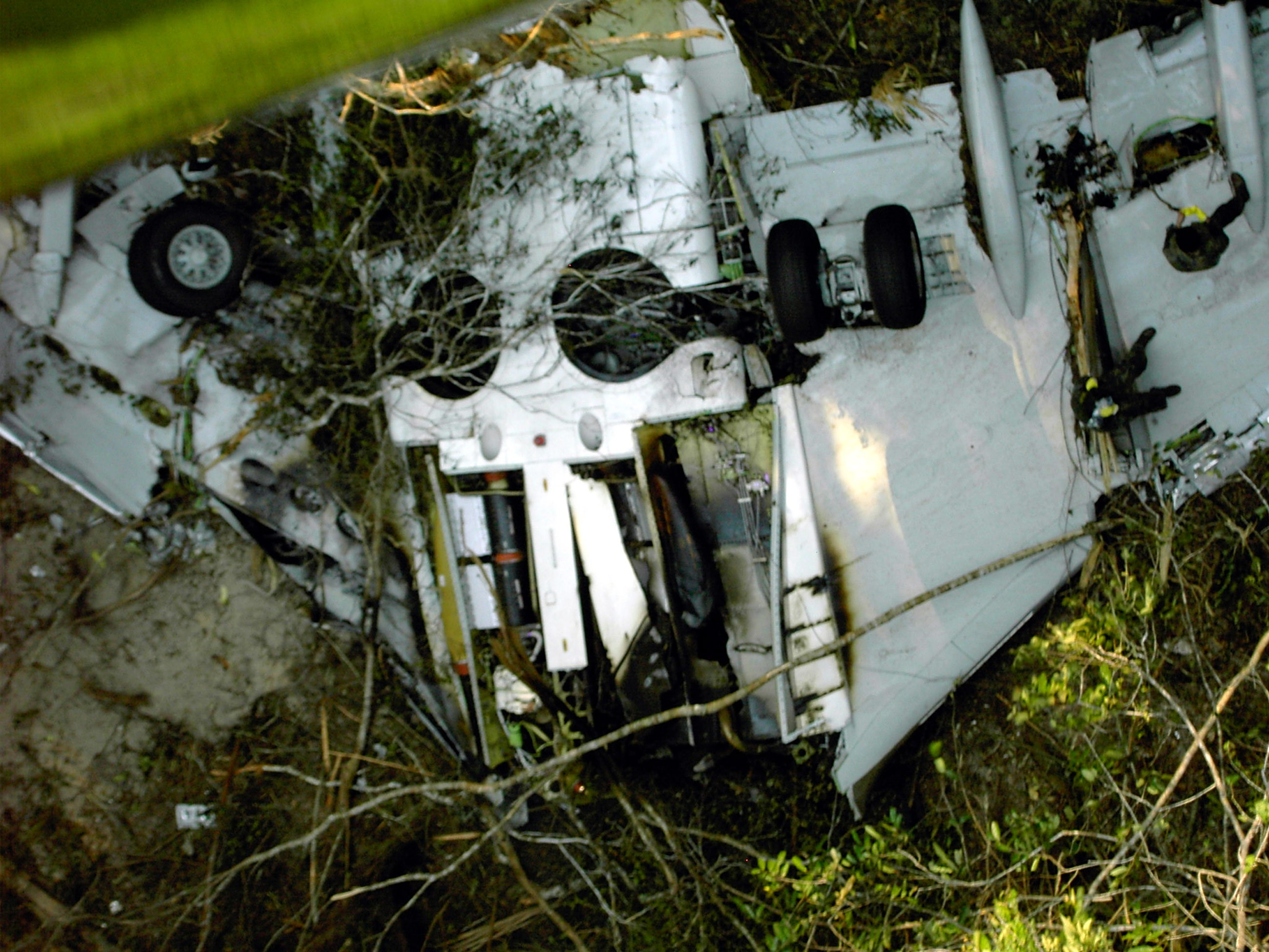 Brazilian Air Force personnel examine the wreckage of Gol Transportes Aéreos Flight 1907, which crashed in the Brazilian state of Mato Grosso on September 29, 2006.